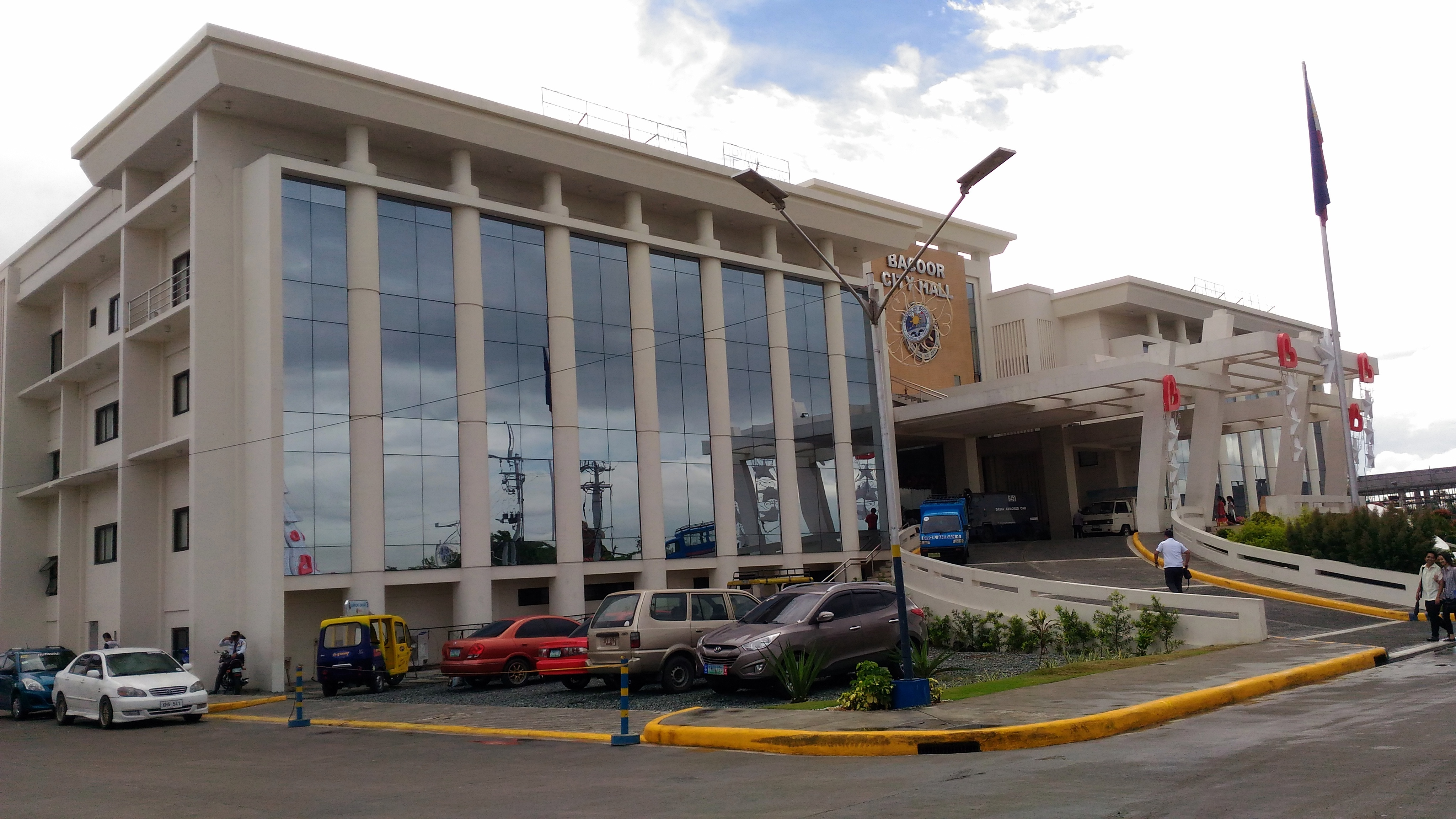 The front of the Bacoor City Hall located at the Bacoor Government Center.